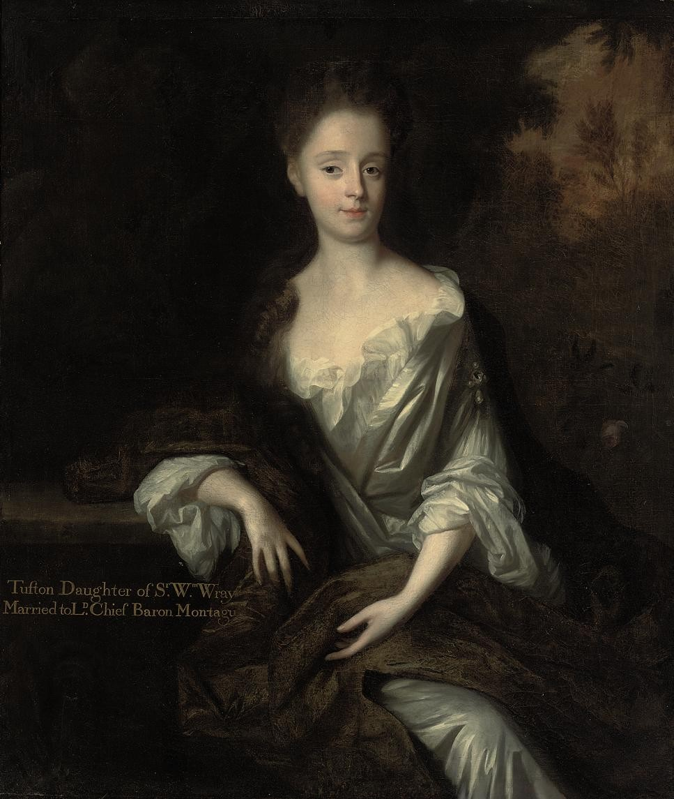 Portrait seated in an oyster satin dress and white chemise, with a dark green wrap, her right arm resting on a ledge, a landscape beyond